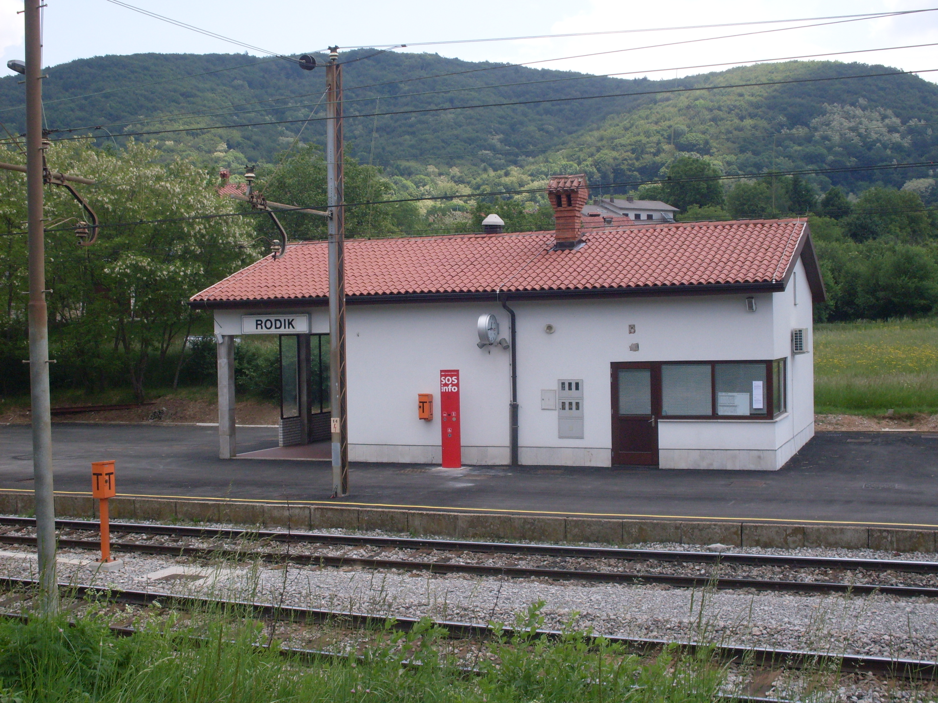 Train station in Rodik, Slovenia